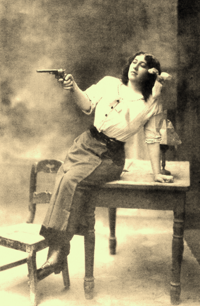 Eugenia Burzio as Minnie in Fancuilla del West. Photo taken in 1911